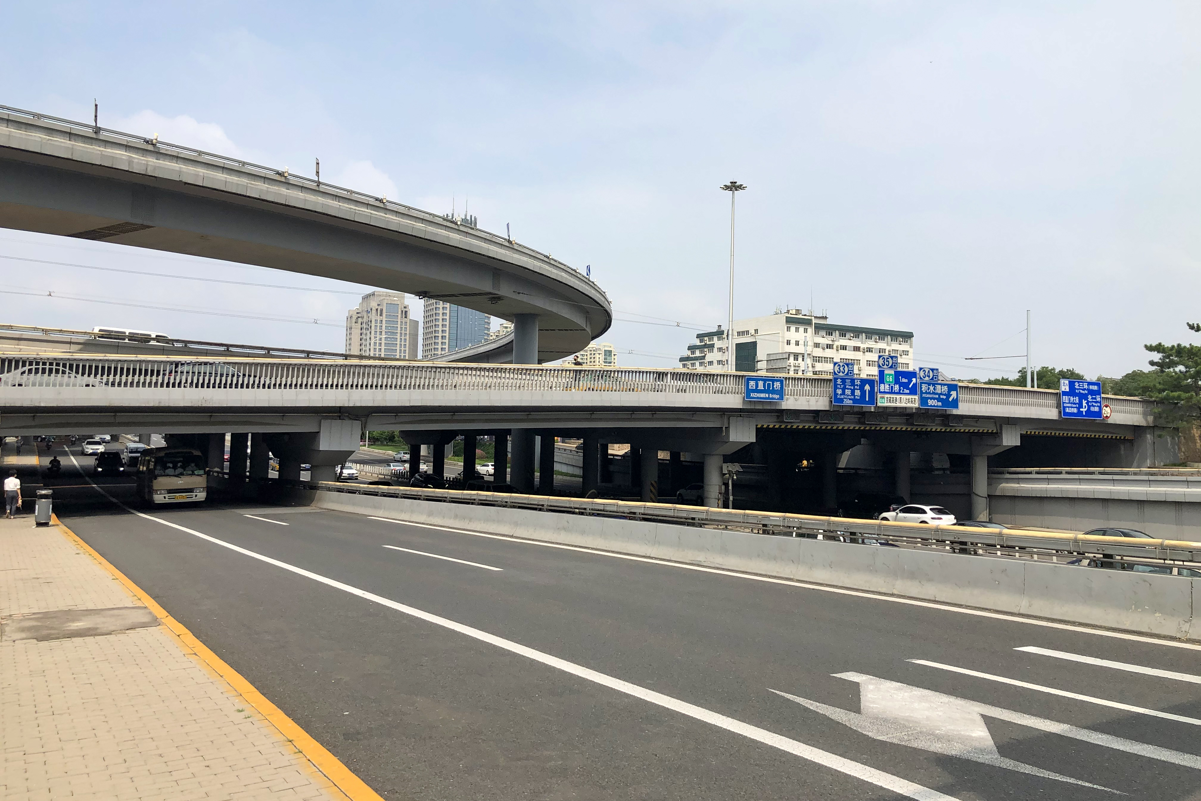 Puzzling?